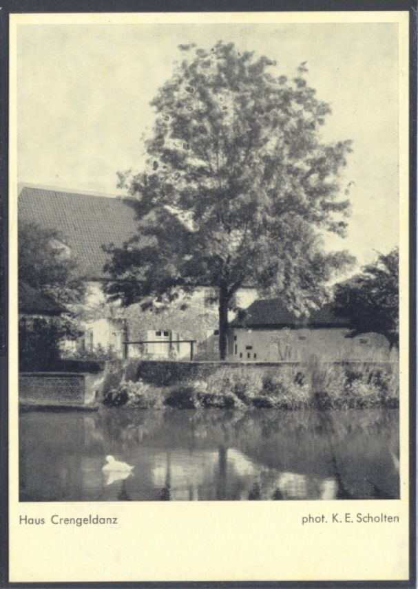 house Haus Crengeldanz in Witten